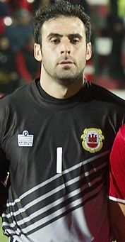 Jordan Perez vs. Estonia